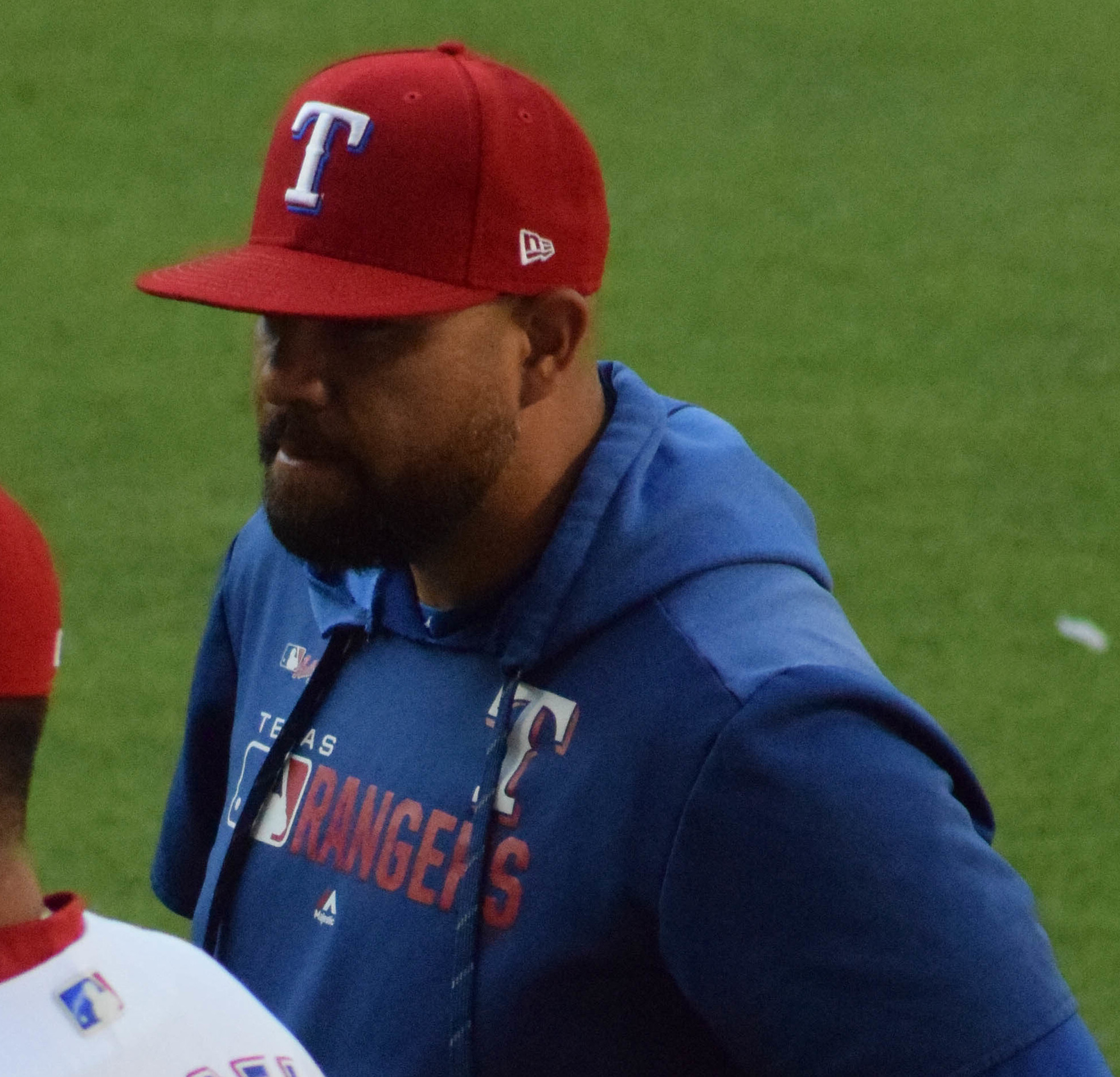 Coaches Julio Rangel and Oscar Marin with the Texas Rangers in 2019.